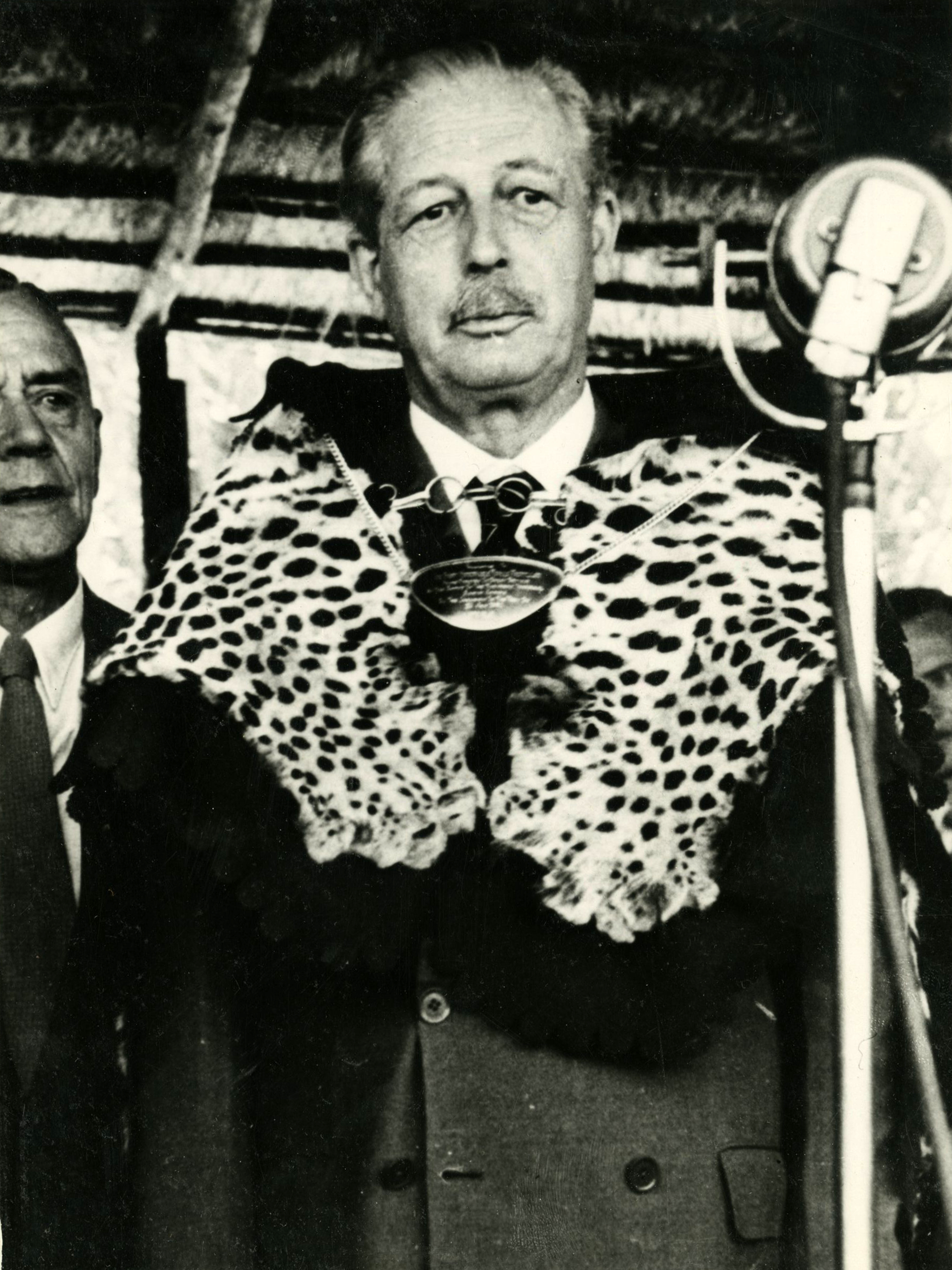 This image is part of the Colonial Office photographic collection held at The National Archives, uploaded as part of the Africa Through a Lens project. Feel free to share it within the spirit of the Commons. Portrait of Harold Macmillan (1894–1986)